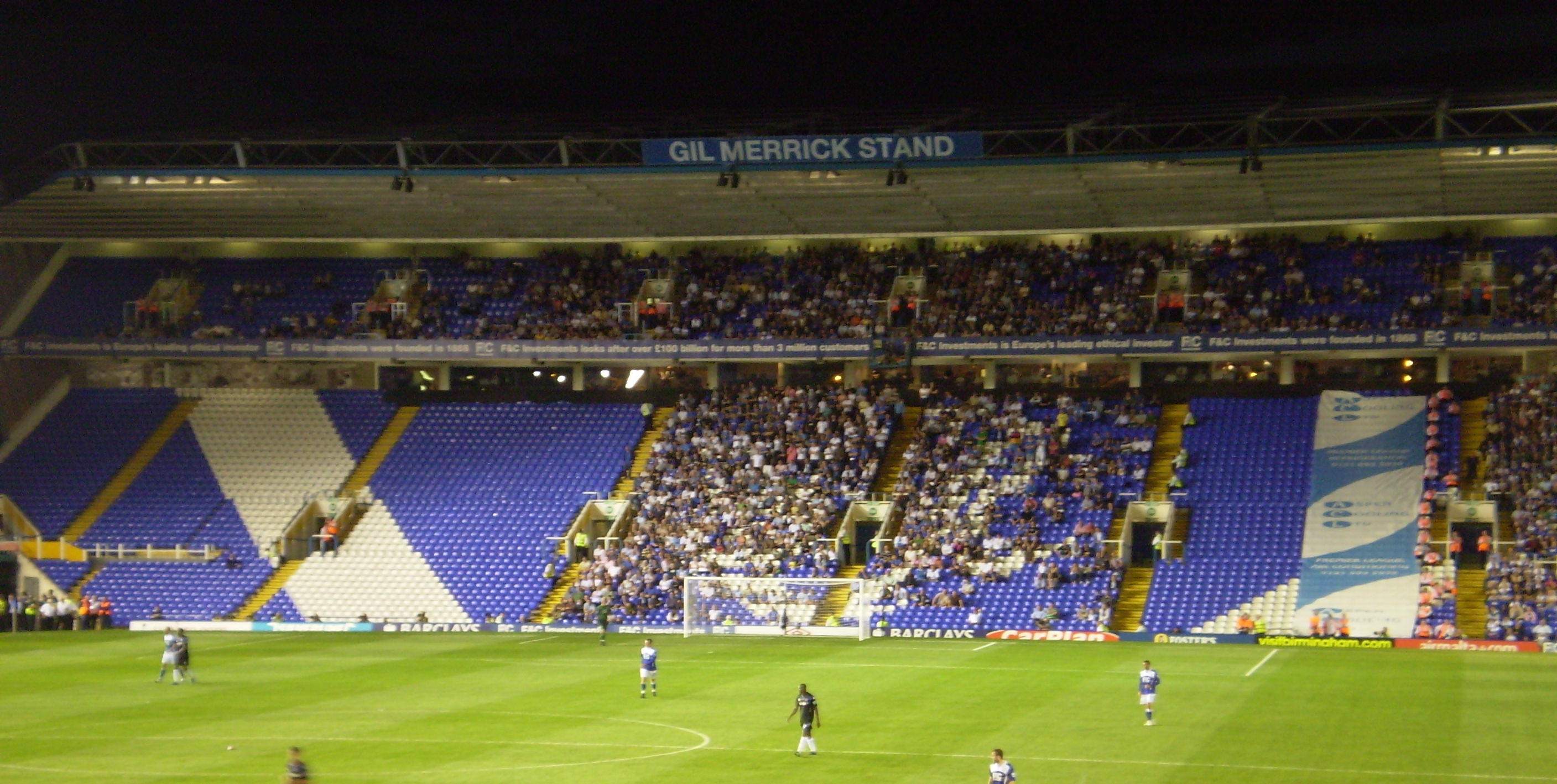 The newly-renamed Gil Merrick Stand of Birmingham City F.C.'s St Andrew's Stadium, formerly the Railway End